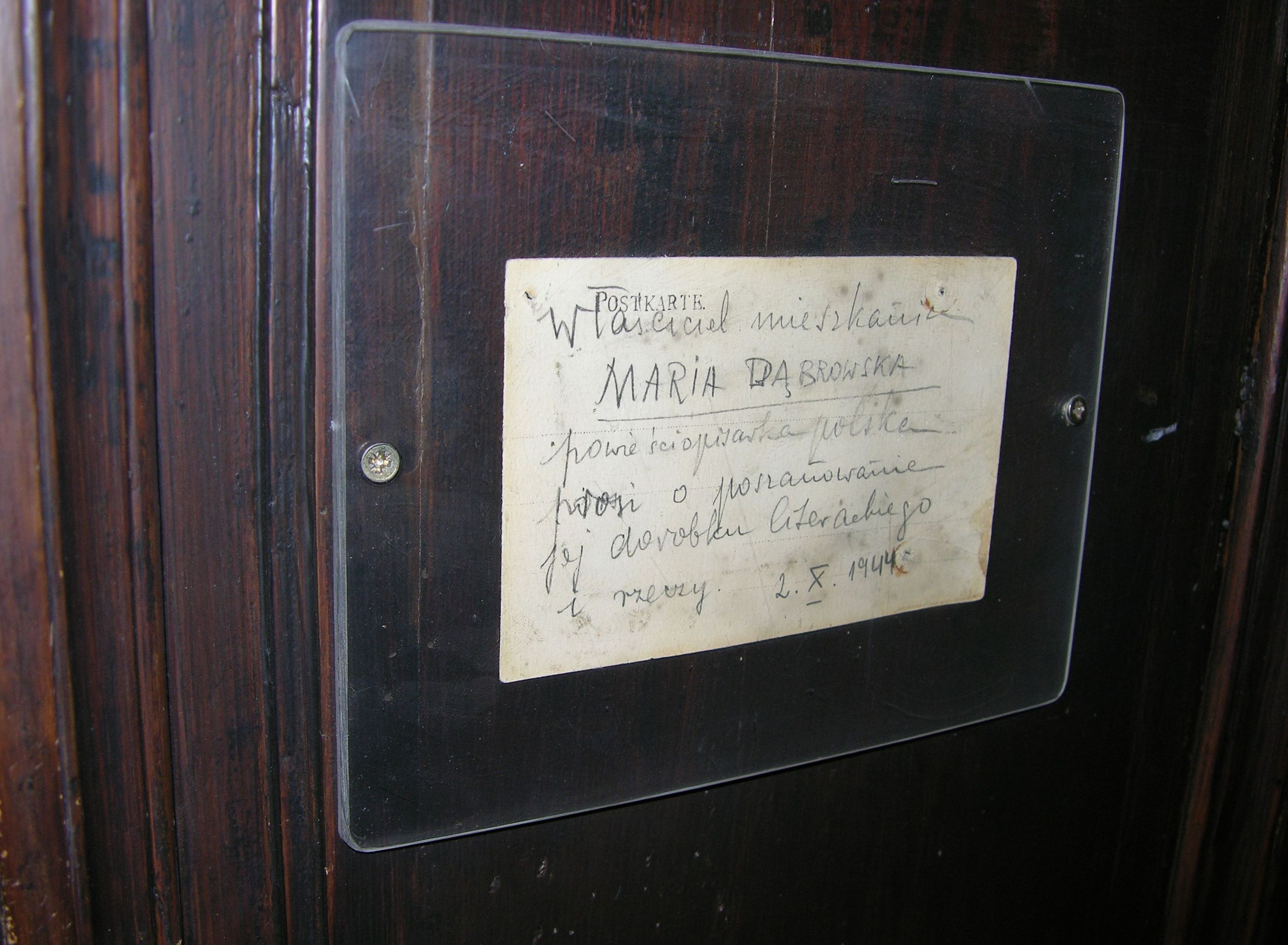 Maria Dąbrowska Muzeum in Warsaw